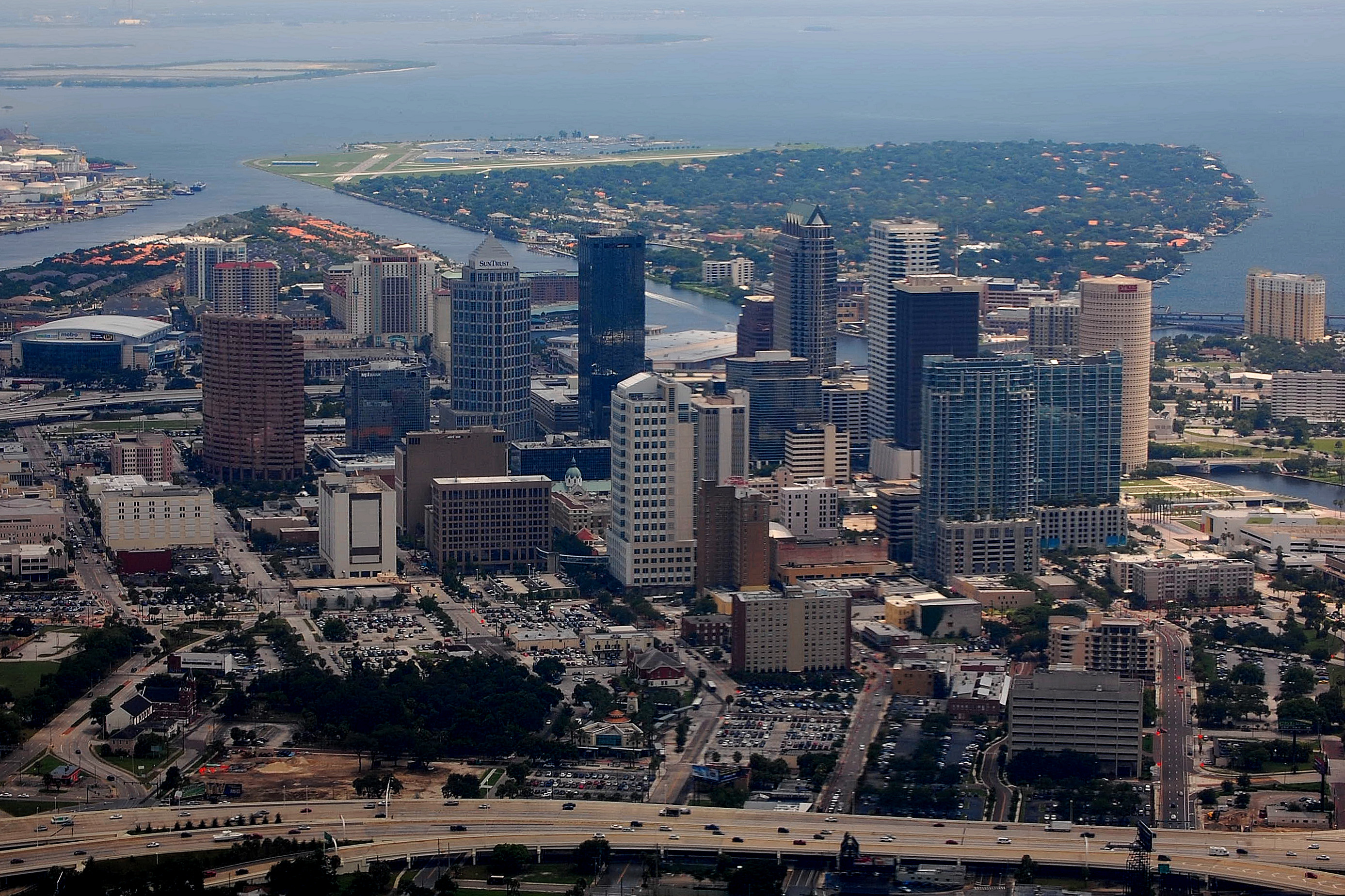 Tampa skyline as seen on approach to Tampa International Airport